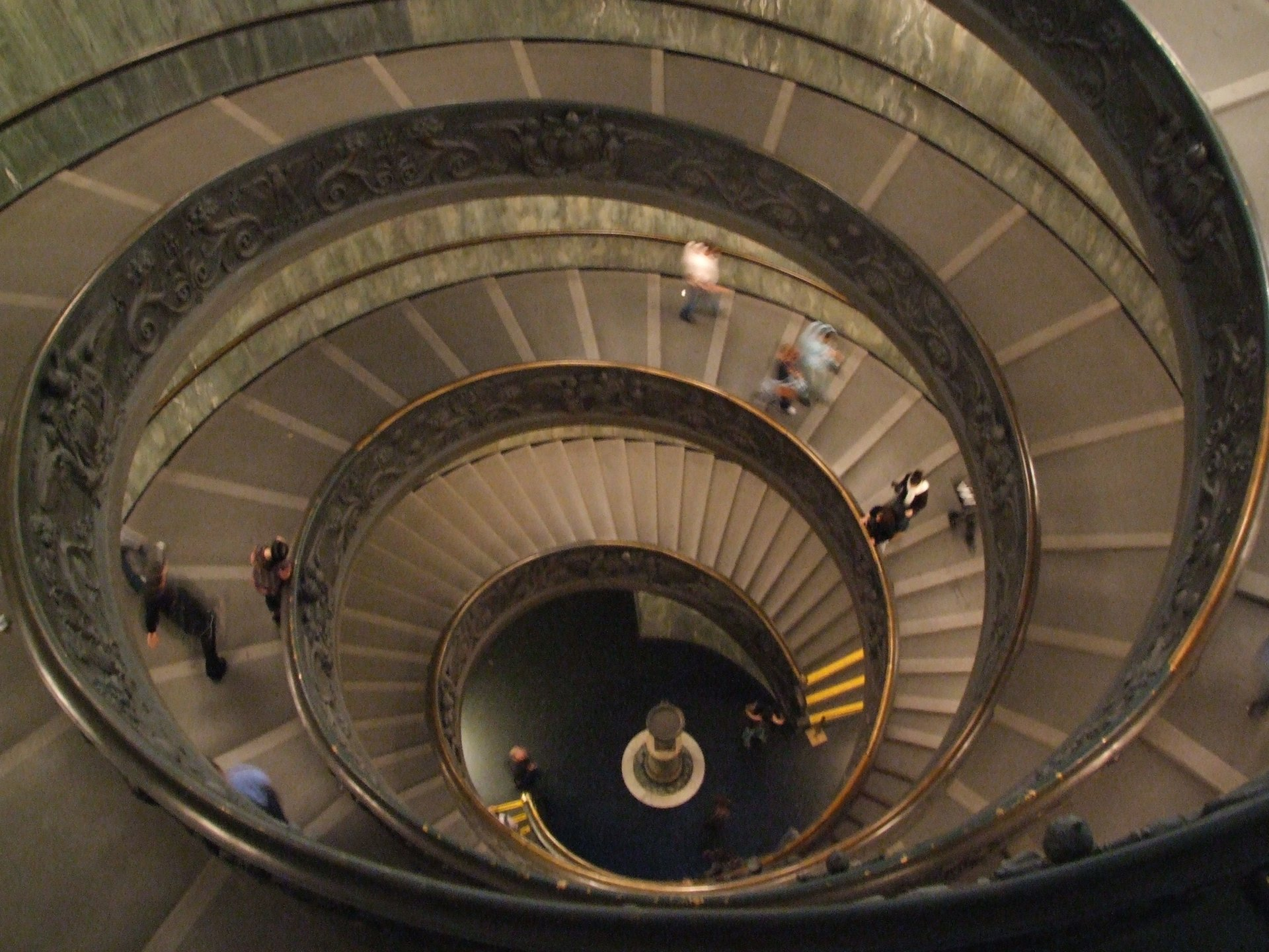 Scala a Chiocciola Vatican Museums Vaticano Roma Rome Lazio Italia Italy Castielli CC0